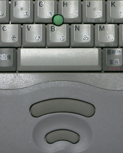 Personal Computer TOSHIBA_Dynabook_Pointing_stick